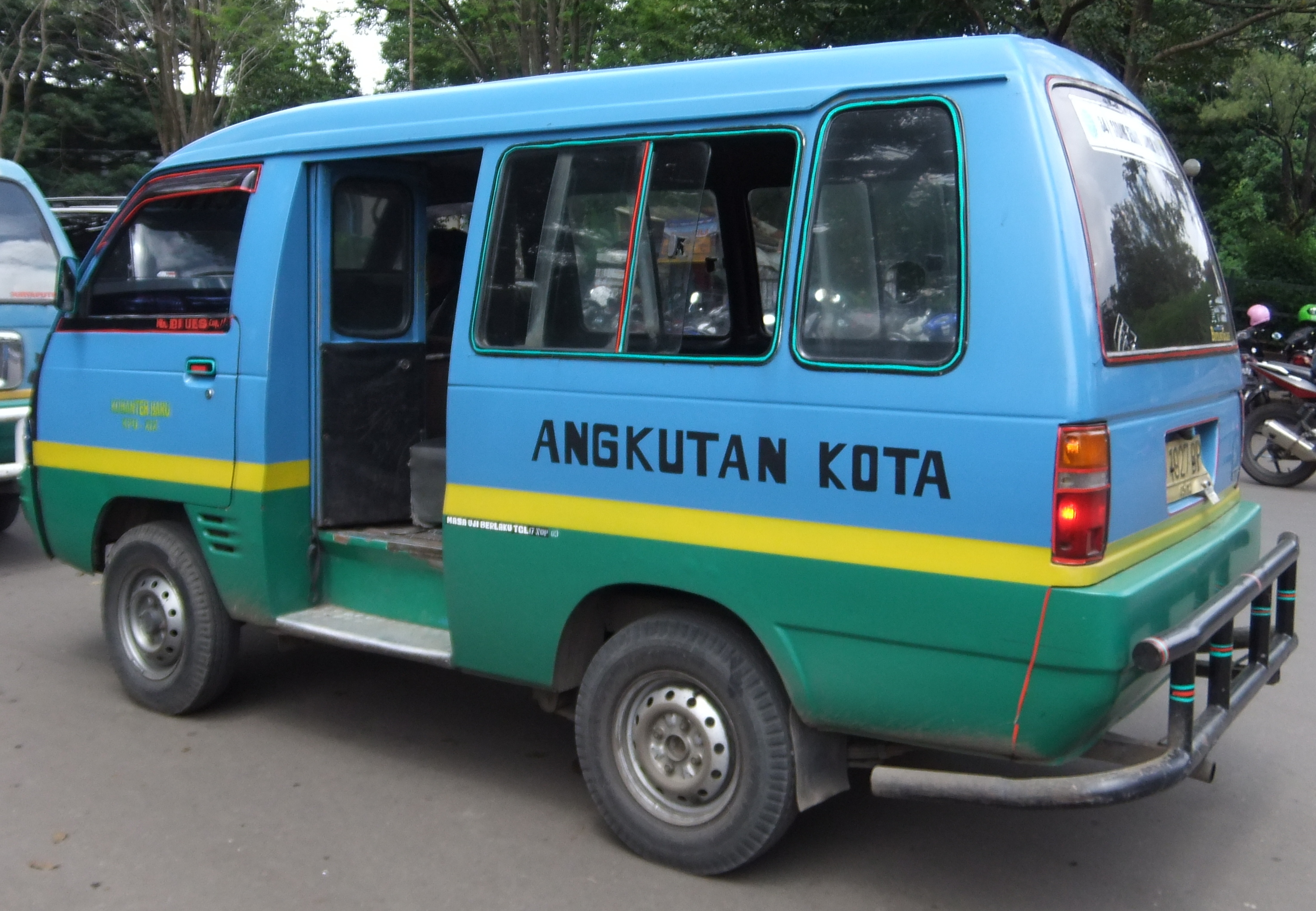 Angkot (public minivan) in Bandung, on the route Sadang Serang - Terminal Caringin. Photo taken near ITB campus.